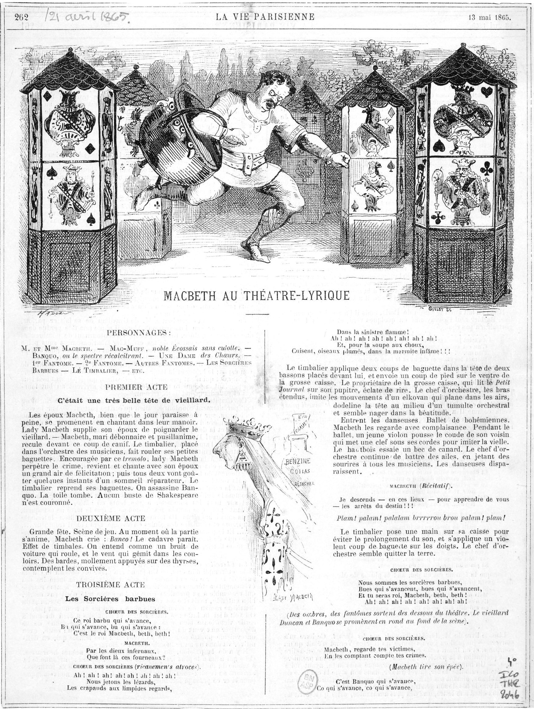 Press clipping about a production of Verdi's Macbeth as performed at the Théâtre Lyrique in Paris beginning on 21 April 1865, as published in La vie parisienne 13 May 1865, p. 262